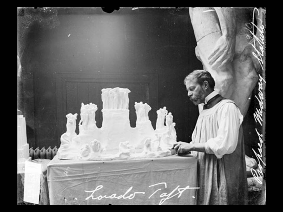 Lorado Taft working on a Fountain of Creation model in 1910. Intended as a companion piece to Fountain of Time.